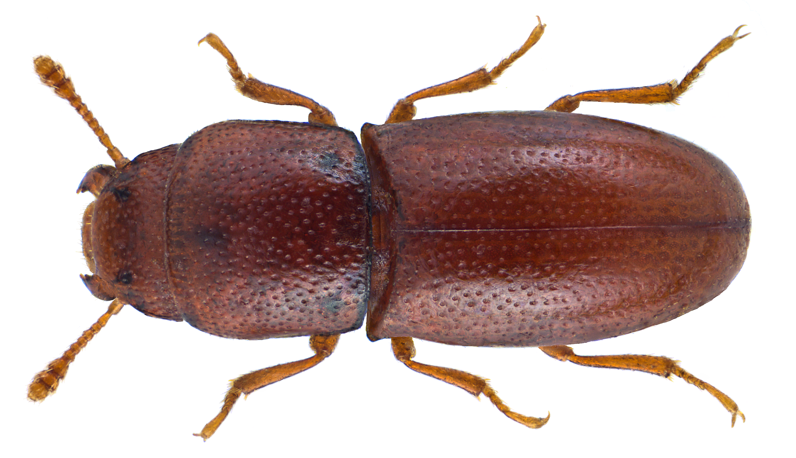 Family: Colydiidae Size: 2,0 mm (1,5 to 2,0 mm) Origin: Europe Ecology: in rotting substrates, in barns, stables, cellars, compost Location: Germany, Rheinland, Vulkaneifel, Wollmerath leg.det. Matern, 16.XI.1991 Photo: U.Schmidt, 2015